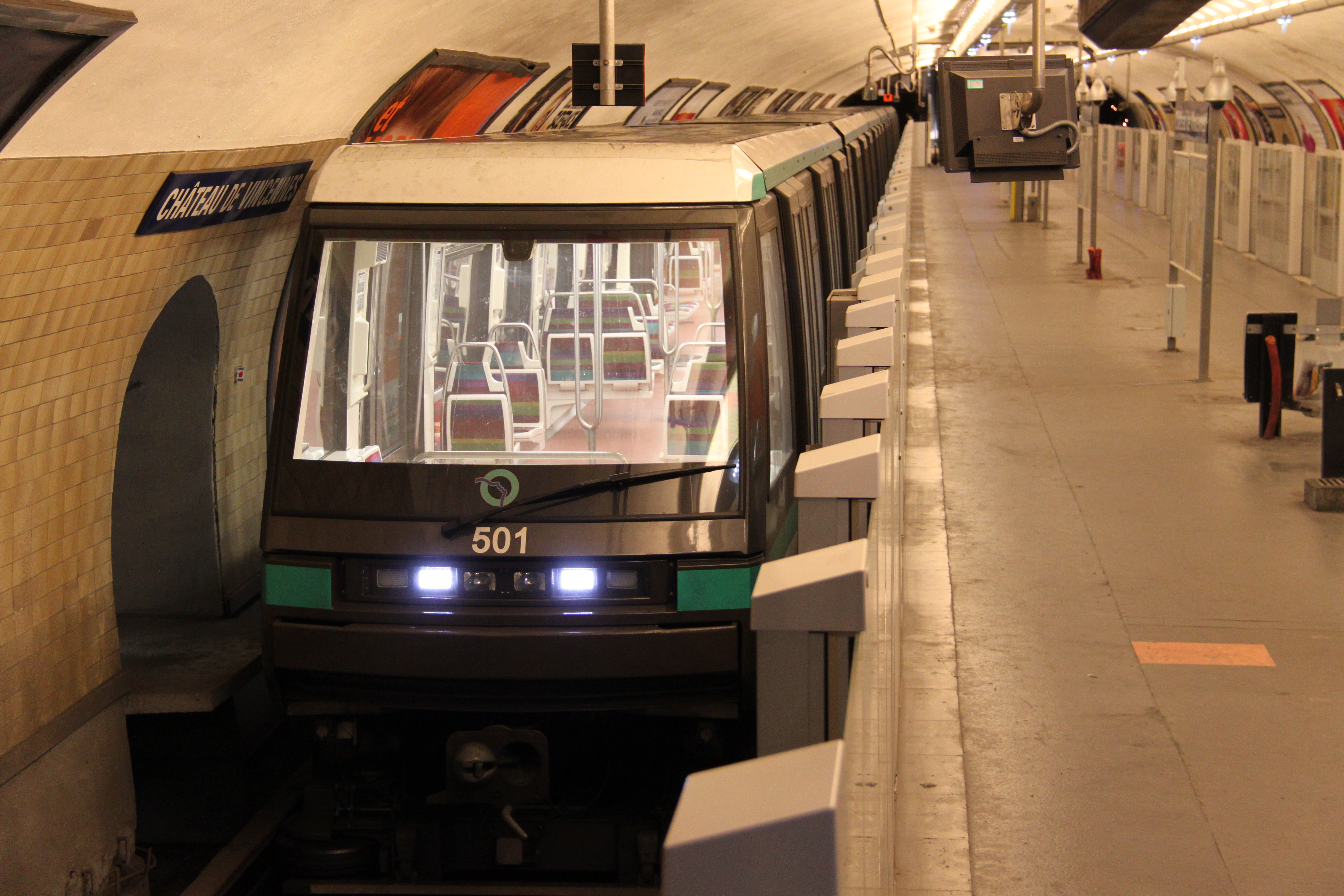 MP05 rame #501 at metrostation Château de Vincennes, terminus of line 1.